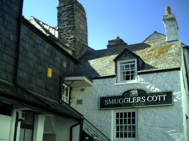 Former, smugglers' pit, today a prosperowu pub. Looe, Cornwall